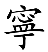 An illustration of the Traditional Chinese Character 寧 in Regular Script